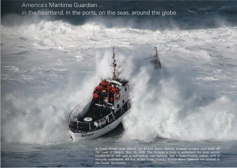 USCG 52 foot motor lifeboat Intrepid